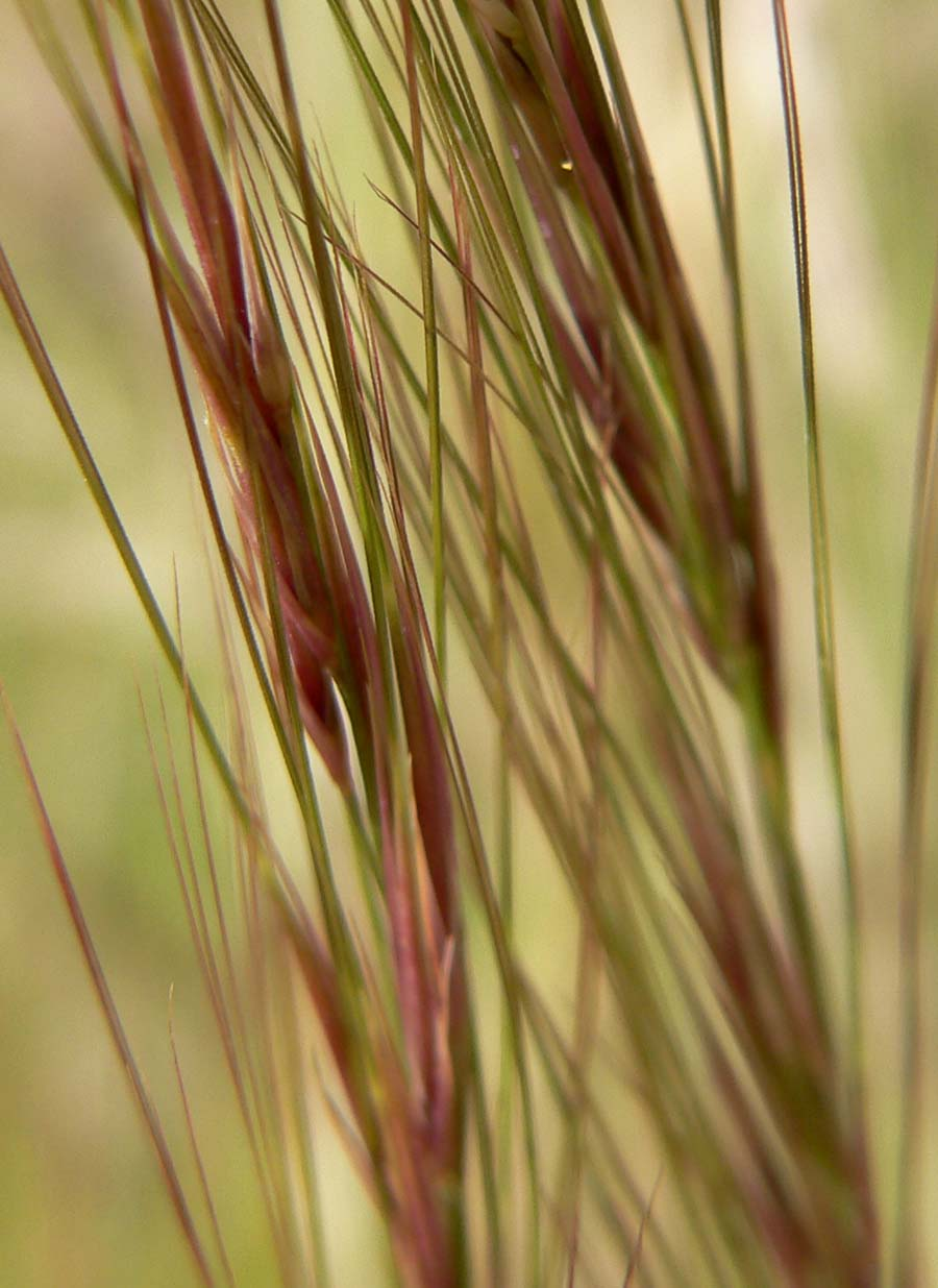 Photo of Aristida purpurea close up at the Springs Preserve garden in Las Vegas, Nevada